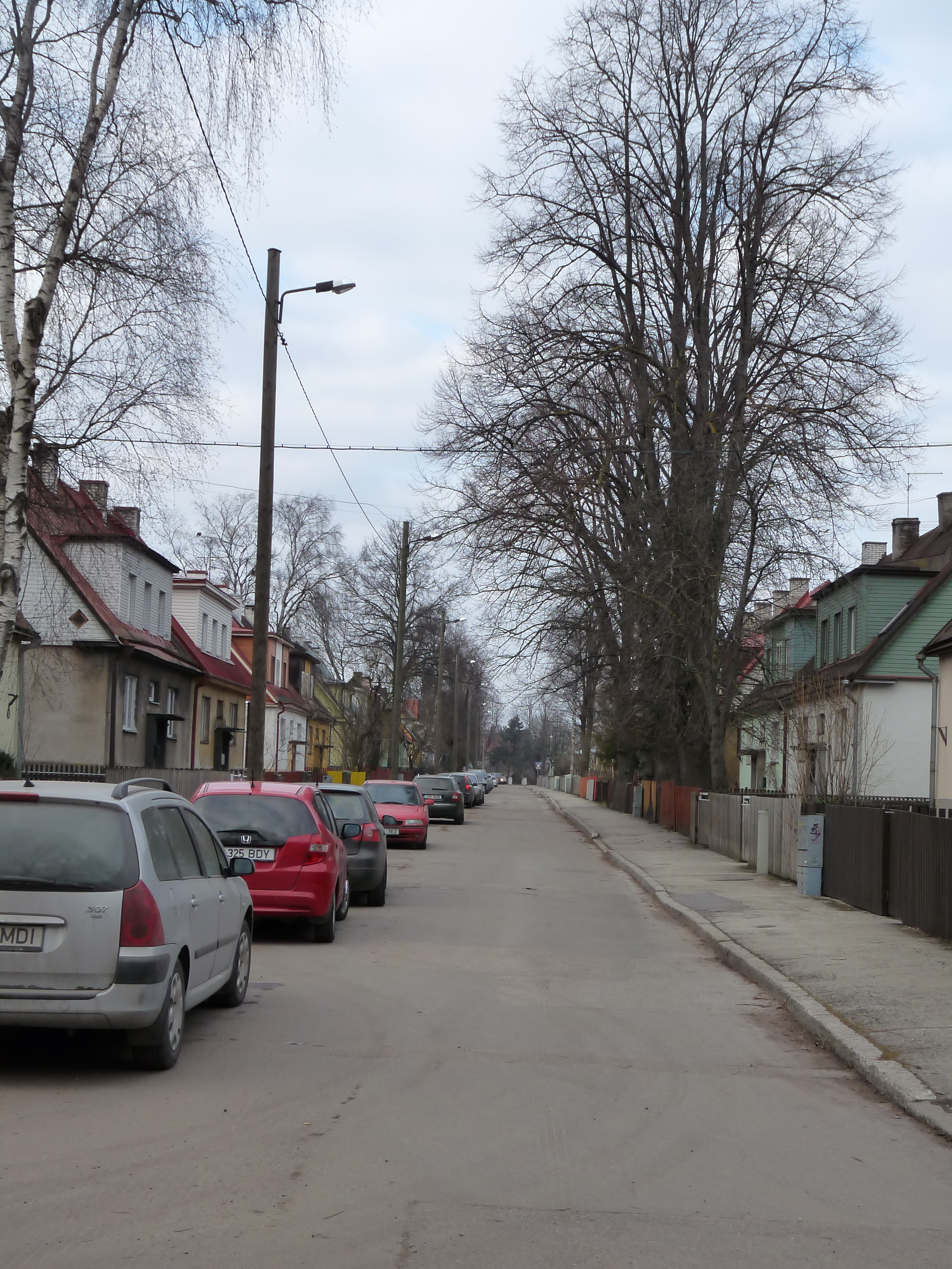 Aarde street in Tallinn, Estonia